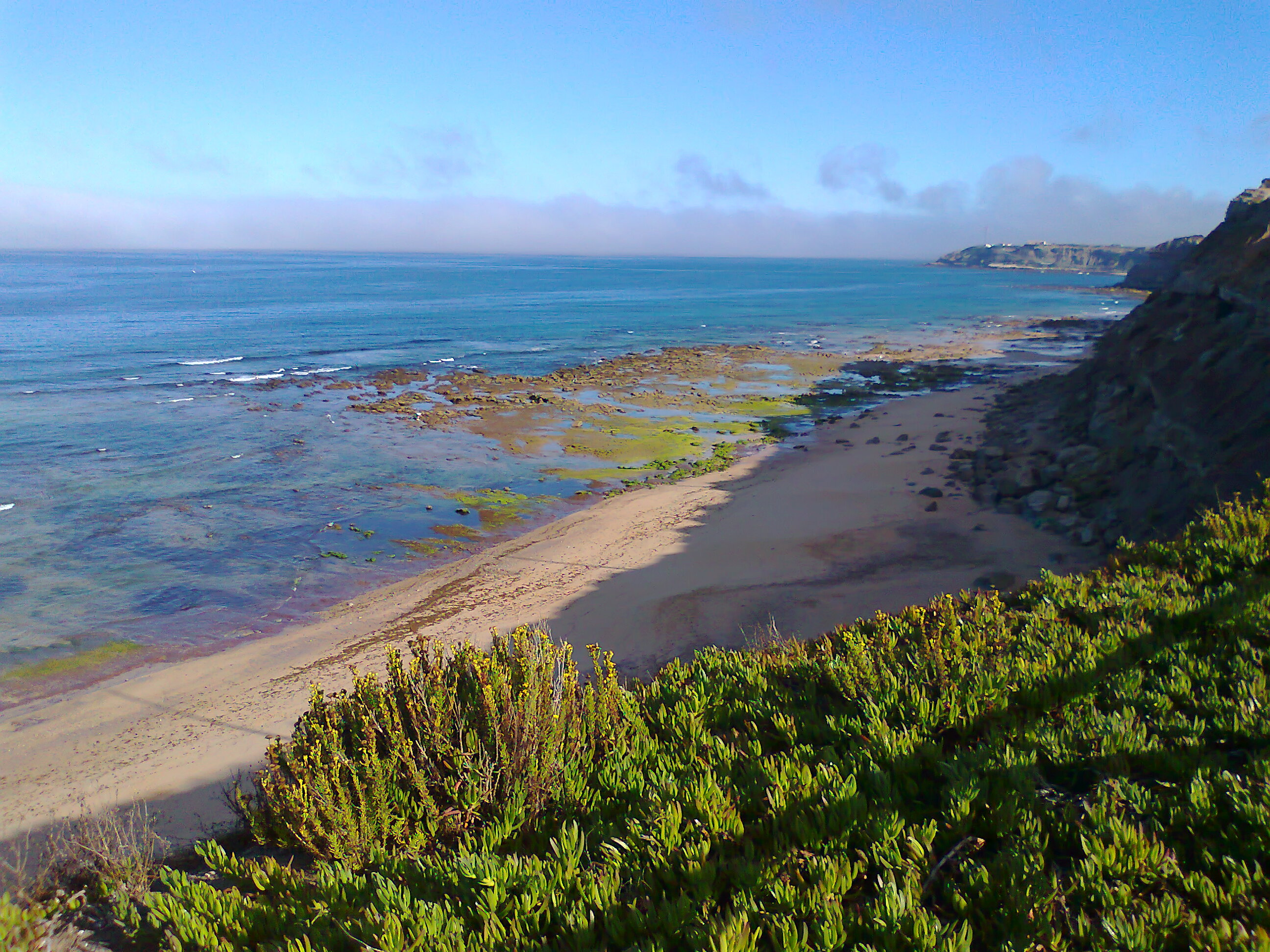 West Coast near Areia Branca, Portugal This is a photography of a Site of Community Importance in Portugal with the ID: PTCON0056. Natura2000 entry, EEA entry